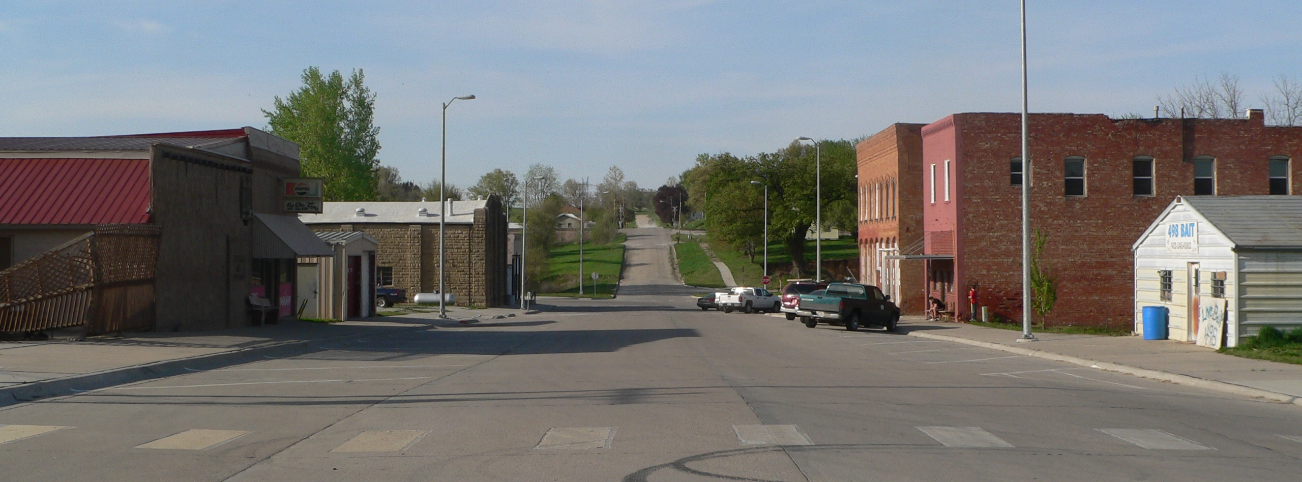 Downtown Rulo, Nebraska: 1st Street, looking generally northward from Rouleau Street.